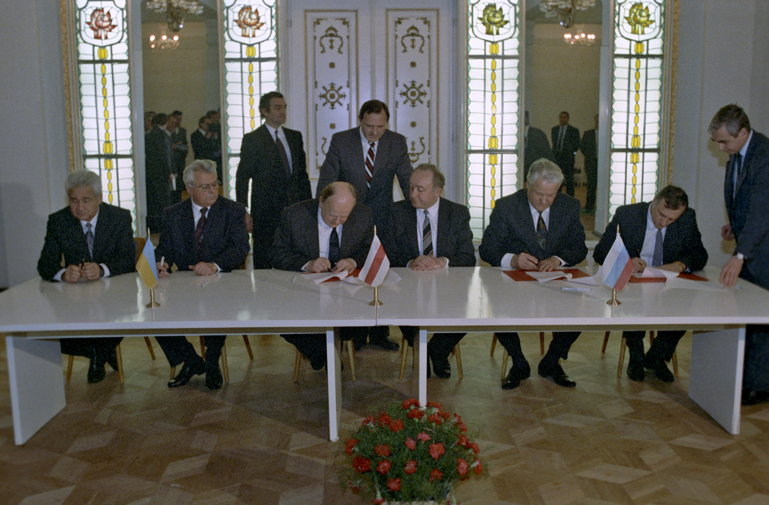 “Signing the Agreement to eliminate the USSR and establish the Commonwealth of Independent States”. Ukrainian President Leonid Kravchuk (second from left seated), Chairman of the Supreme Council of the Republic of Belarus Stanislav Shushkevich (third from left seated) and Russian President Boris Yeltsin (second from right seated) during the signing ceremony to eliminate the USSR and establish the Commonwealth of Independent States. Viskuly Government House in the Belorusian National Park "Belovezhskaya Forest".